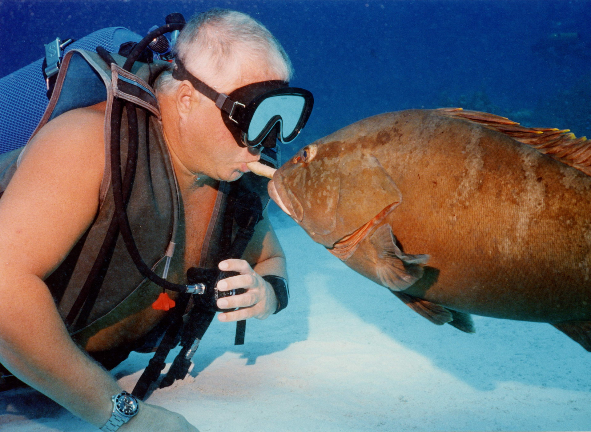 Royonx eating a saussage with a grouper in Club med Bahamas